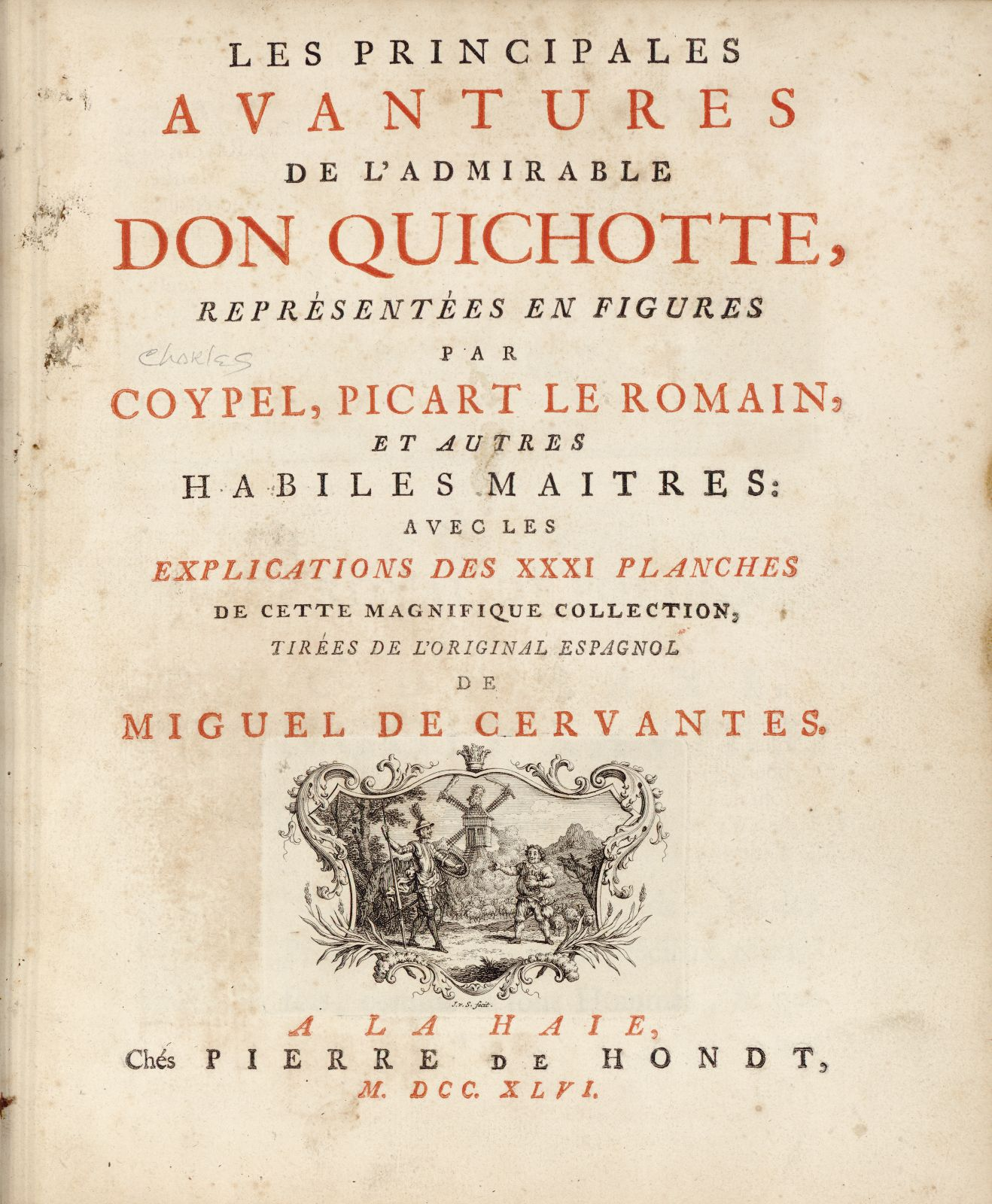 Frontpage of the first edition of Don Quichotte in